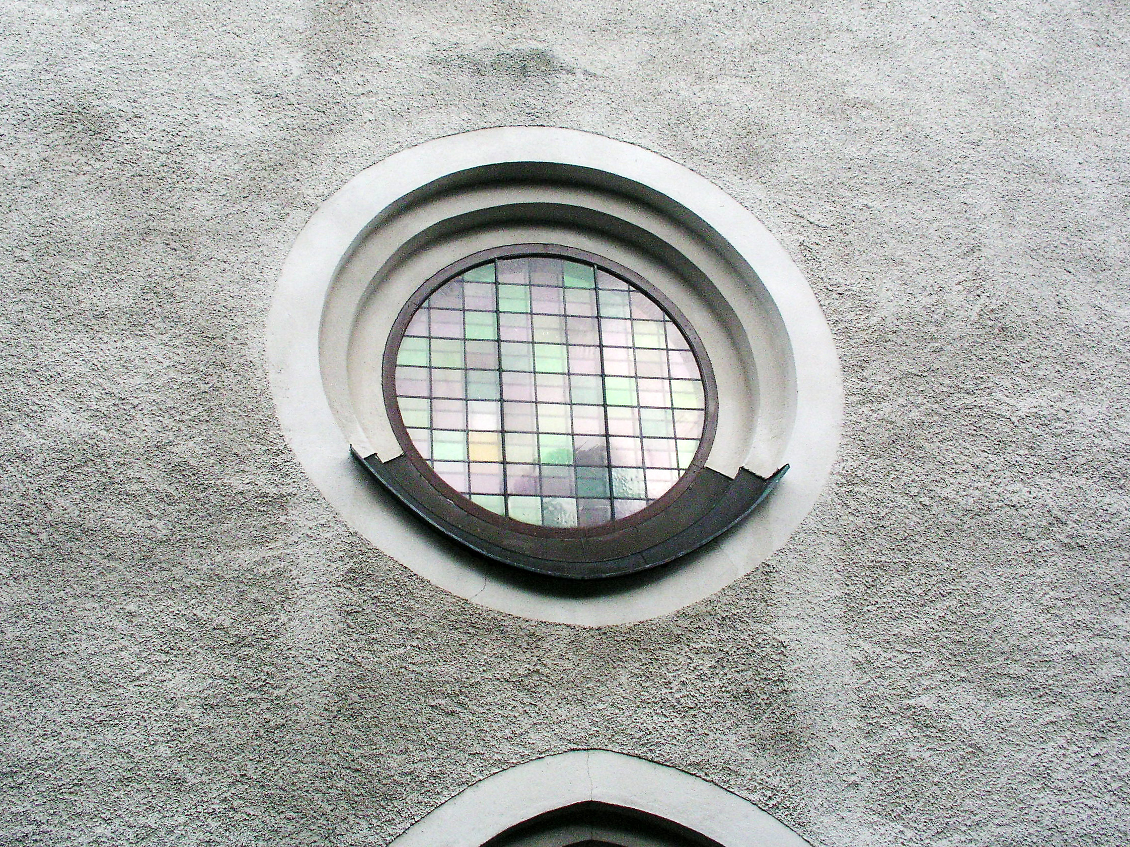 Täby kyrka, Diocese of Stockholm. Church window. The photo was taken the 16th of August 2003 by Håkan Svensson (Xauxa).